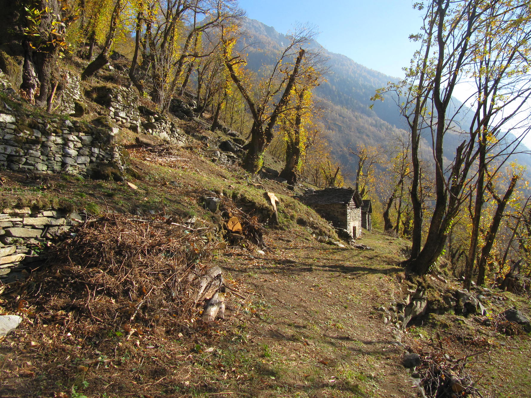 This is a traditional chestnut orchard (selva castaile) in Canton Ticino in Switzerland. Picture was taken in autumn 2017.